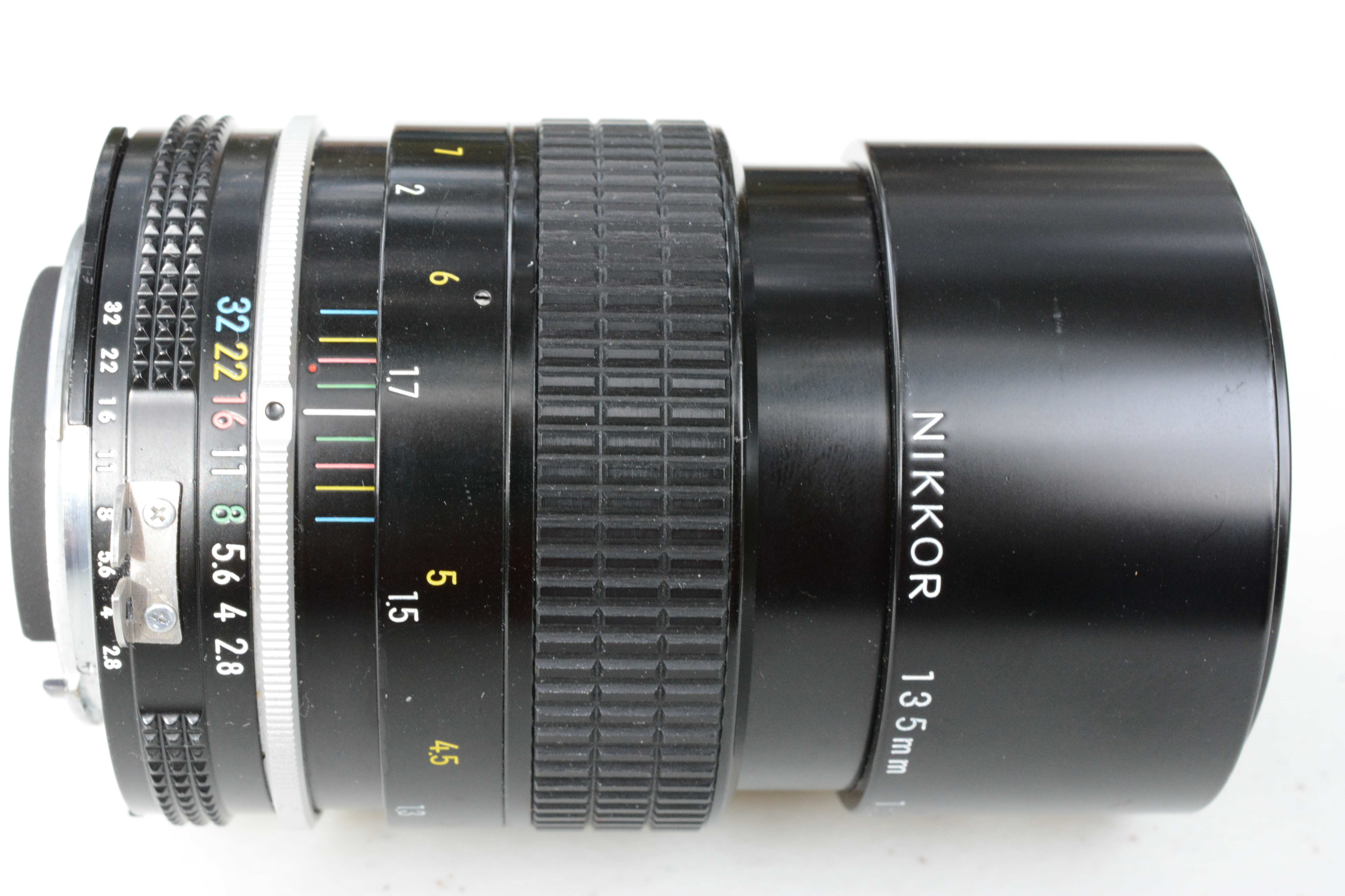 Nikon 135mm f/2.8 manual focus lens